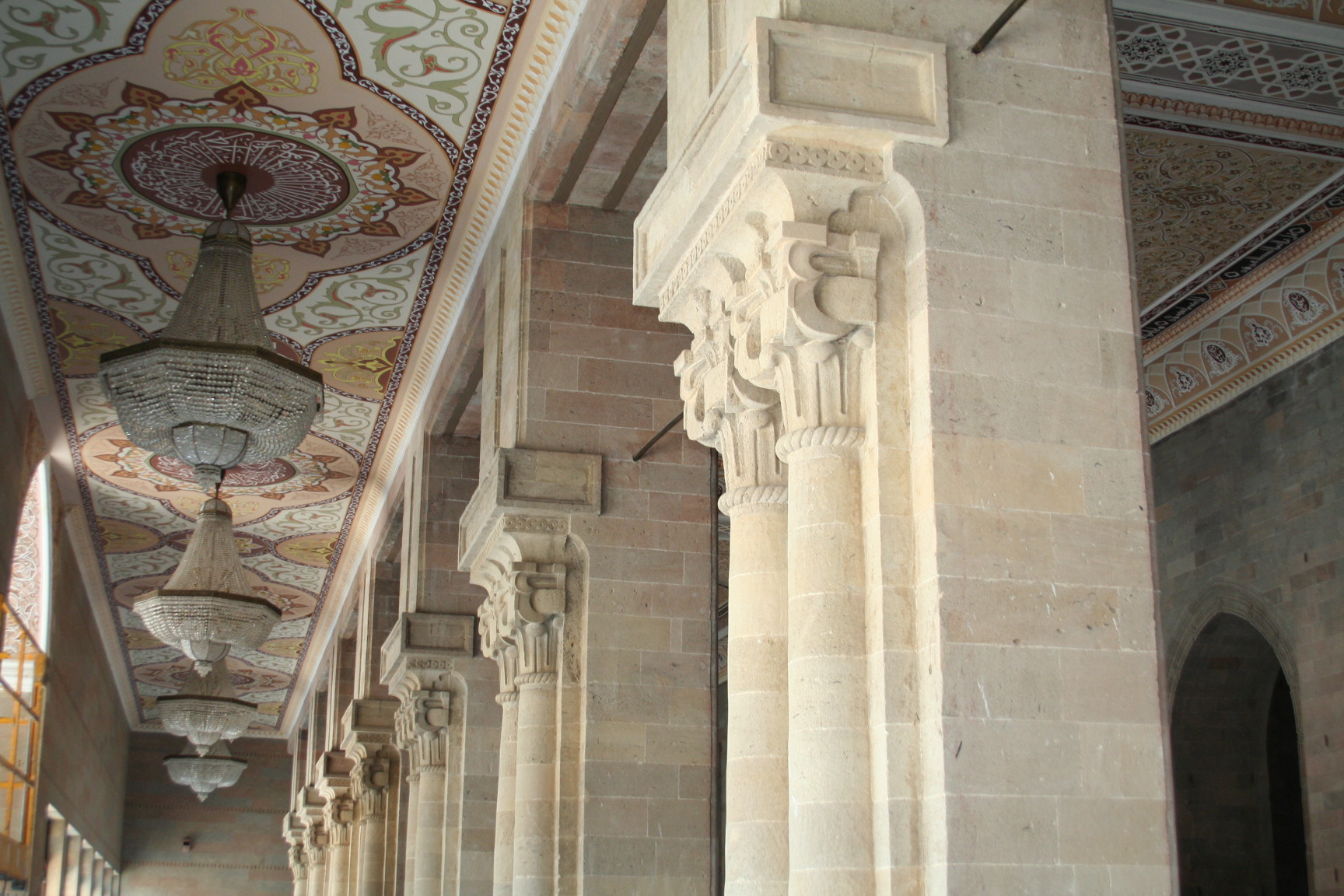 Friday Mosque of Shamakhi. Originally was built in 743. Destroyed during earthquake in 1902. Rebuilt in 1910 by Józef Plośko (1867—1931).